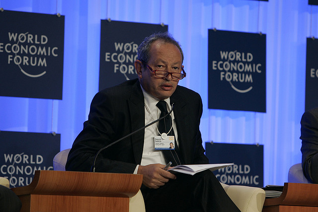 Naguib Sawiris - World Economic Forum on the Middle East